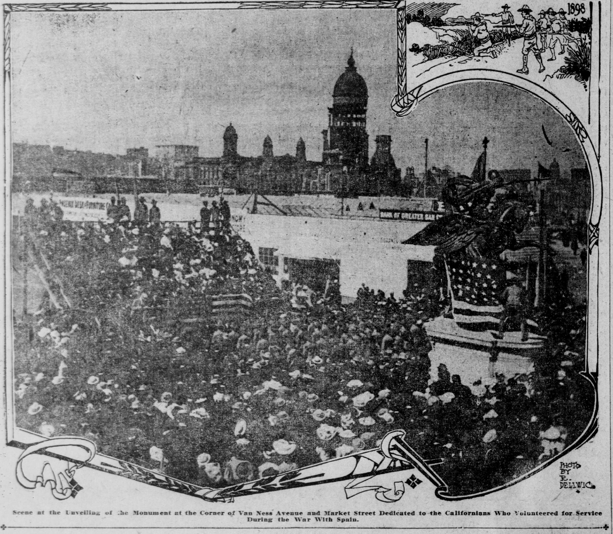 Caption: Scene at the Unveiling of the Monument at the Corner of Van Ness Avenue and Market Street Dedicated to the Californians Who Volunteered for Service During the War with Spain